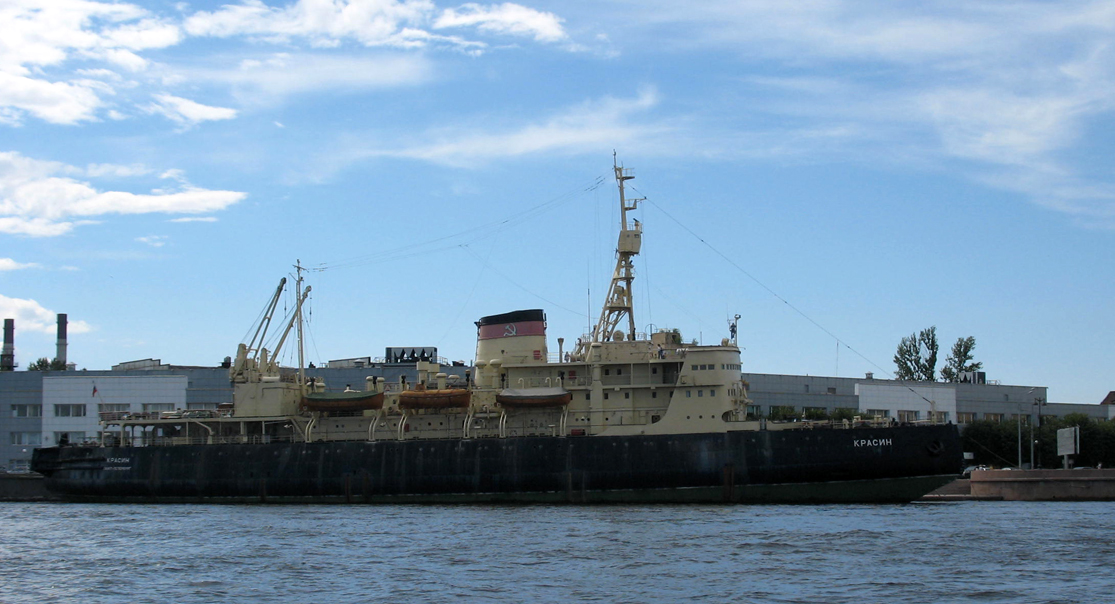 Icebreaker Krasin